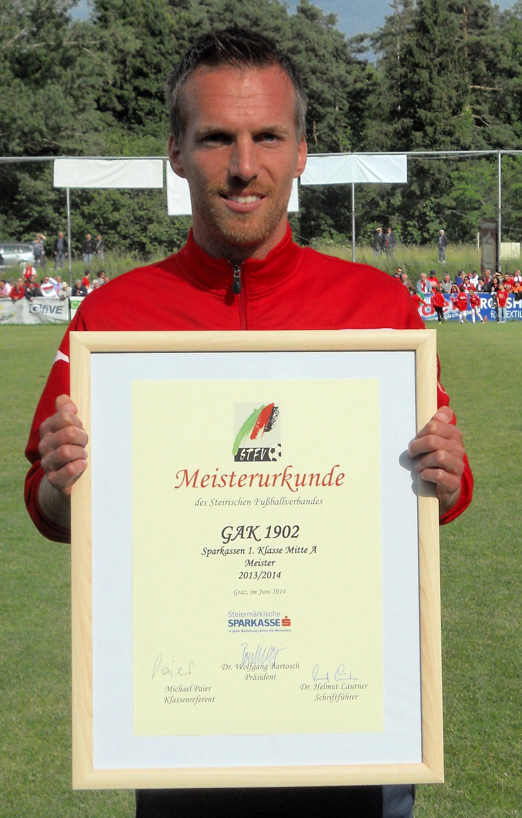 Richard Wemmer as player of GAK after the Styrian "1. Klasse Mitte A"-game Grazer AK vs FC Stattegg reserve team on 31 May 2014 at the Sportzentrum Graz-Weinzödl with the championship certificate